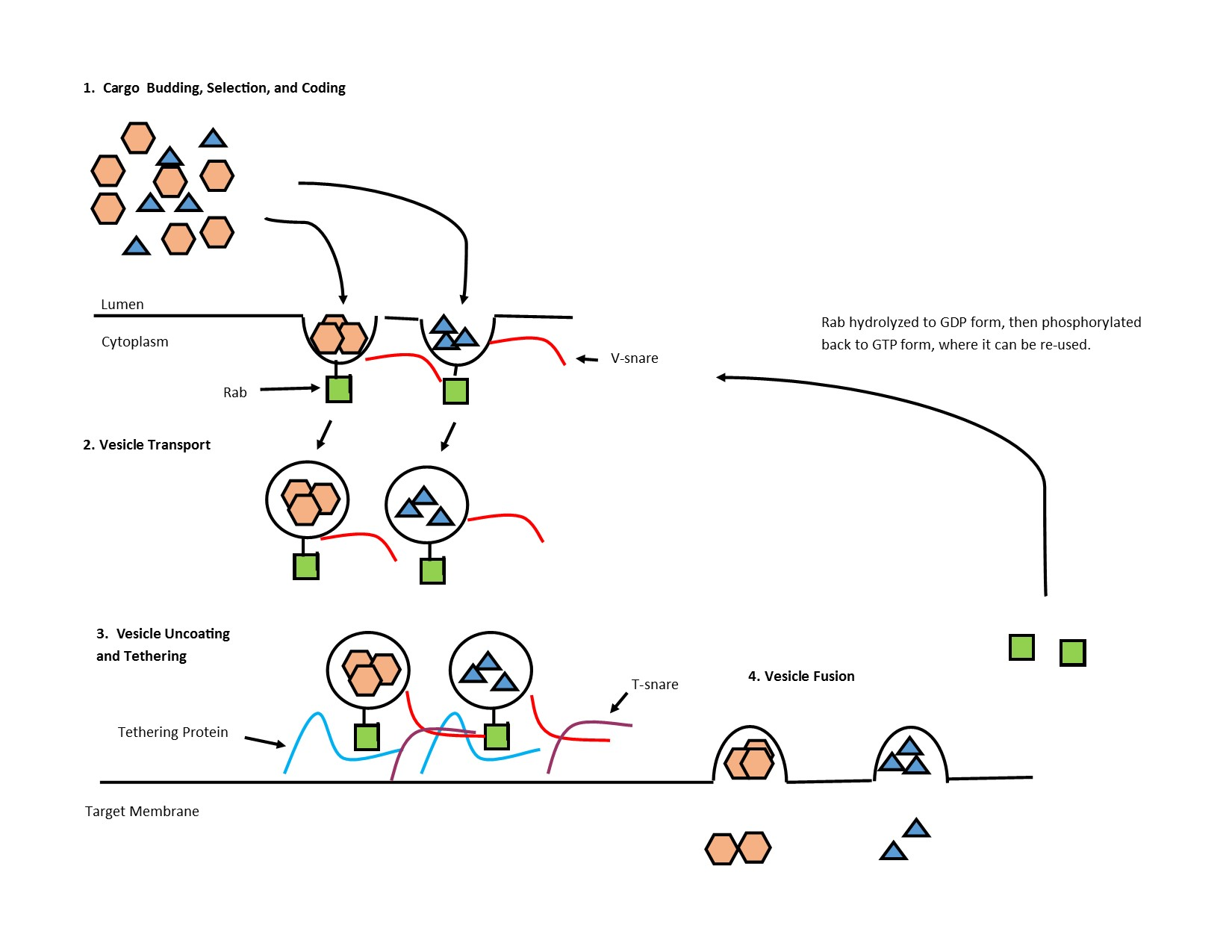 This image depicts the 4 steps in RAB protein vesicle transport.